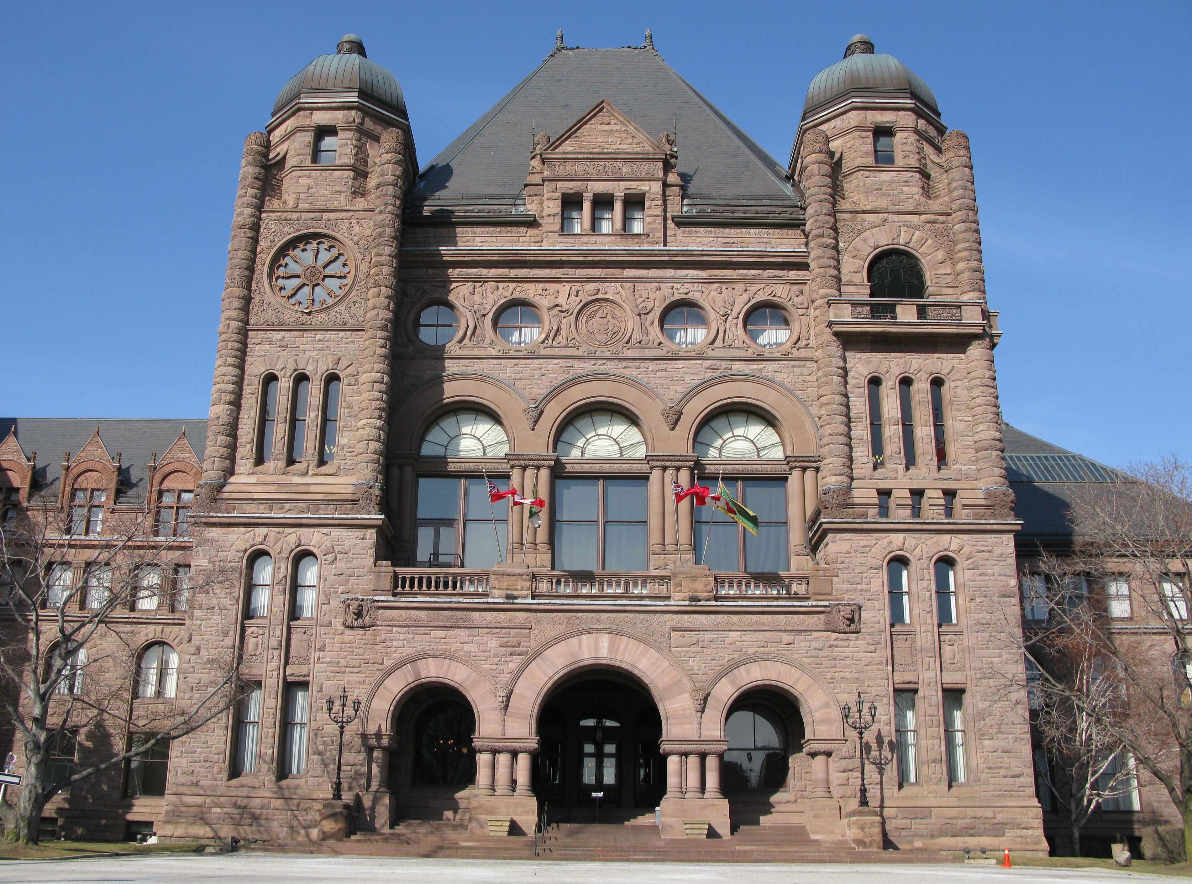 The entrance to the Legislative Assembly of Ontario building in Toronto, Ontario.